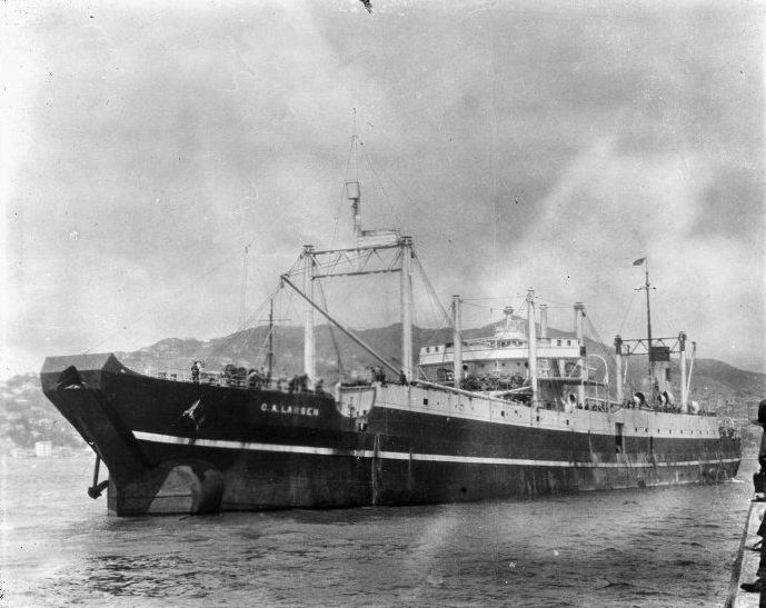 13,246 grt whaling factory steamship C. A. Larsen. Swan, Hunter built her in 1913 as the oil tanker San Gregorio for Eagle Oil and Shipping Co. Hvalfanger A/S of Rosshavet bought her in 1926 and had her converted into a whaling factory ship. She was scrapped in Hamburg in 1954.